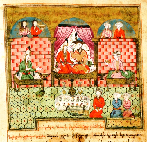 A miniature from the 1729 manuscript (S3702) of Visramiani, a Georgian prose adaptation of the Persian love story Vis and Rāmin. National Cenre of Manuscripts, Tbilisi, Georgia.